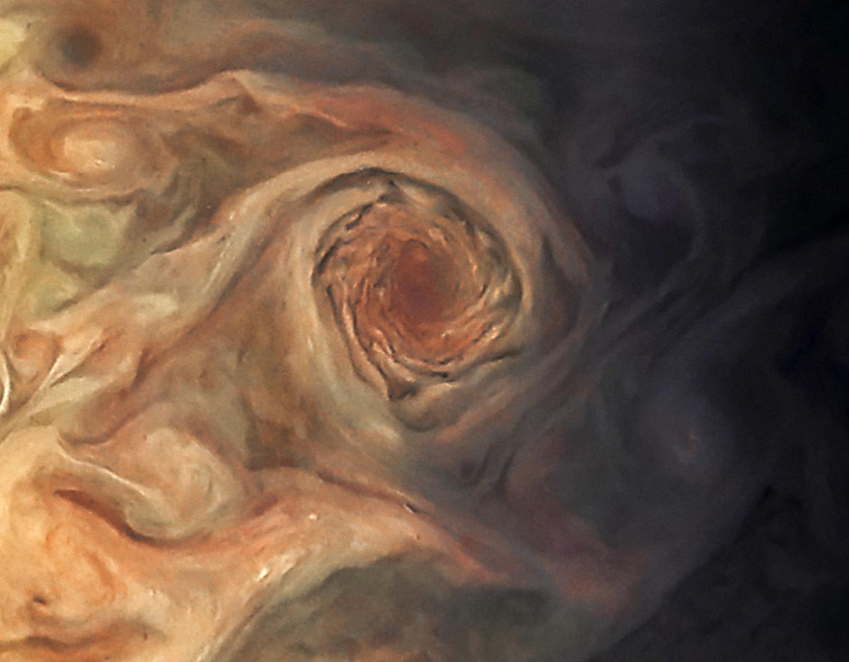 This image, taken by the JunoCam imager on NASA's Juno spacecraft, highlights a swirling storm just south of one of the white oval storms on Jupiter. The image was taken on March 27, 2017, at 2:12 a.m. PDT (5:12 a.m. EDT), as the Juno spacecraft performed a close flyby of Jupiter. At the time the image was taken, the spacecraft was about 12,400 miles (20,000 kilometers) from the planet. Citizen scientist Jason Major enhanced the color and contrast in this image, turning the picture into a Jovian work of art. He then cropped it to focus our attention on this beautiful example of Jupiter's spinning storms. JunoCam's raw images are available at for the public to peruse and process into image products. NASA's Jet Propulsion Laboratory manages the Juno mission for the principal investigator, Scott Bolton, of Southwest Research Institute in San Antonio. Juno is part of NASA's New Frontiers Program, which is managed at NASA's Marshall Space Flight Center in Huntsville, Alabama, for NASA's Science Mission Directorate. Lockheed Martin Space Systems, Denver, built the spacecraft. Caltech in Pasadena, California, manages JPL for NASA. More information about Juno is online at and